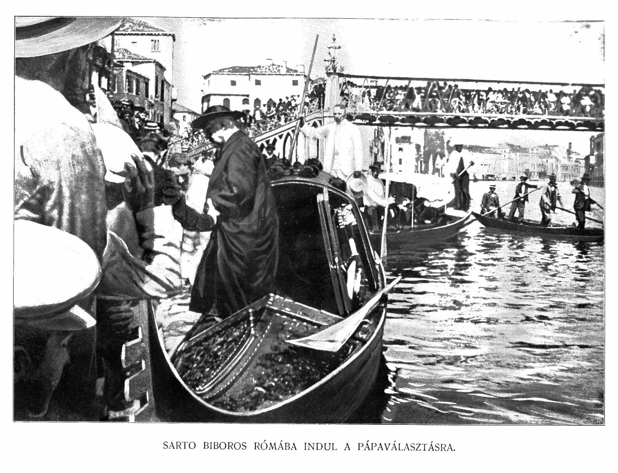 Cardinal and Patriarch Giuseppe Sarto 1903 leaves Venice going in Rome voting for Pope